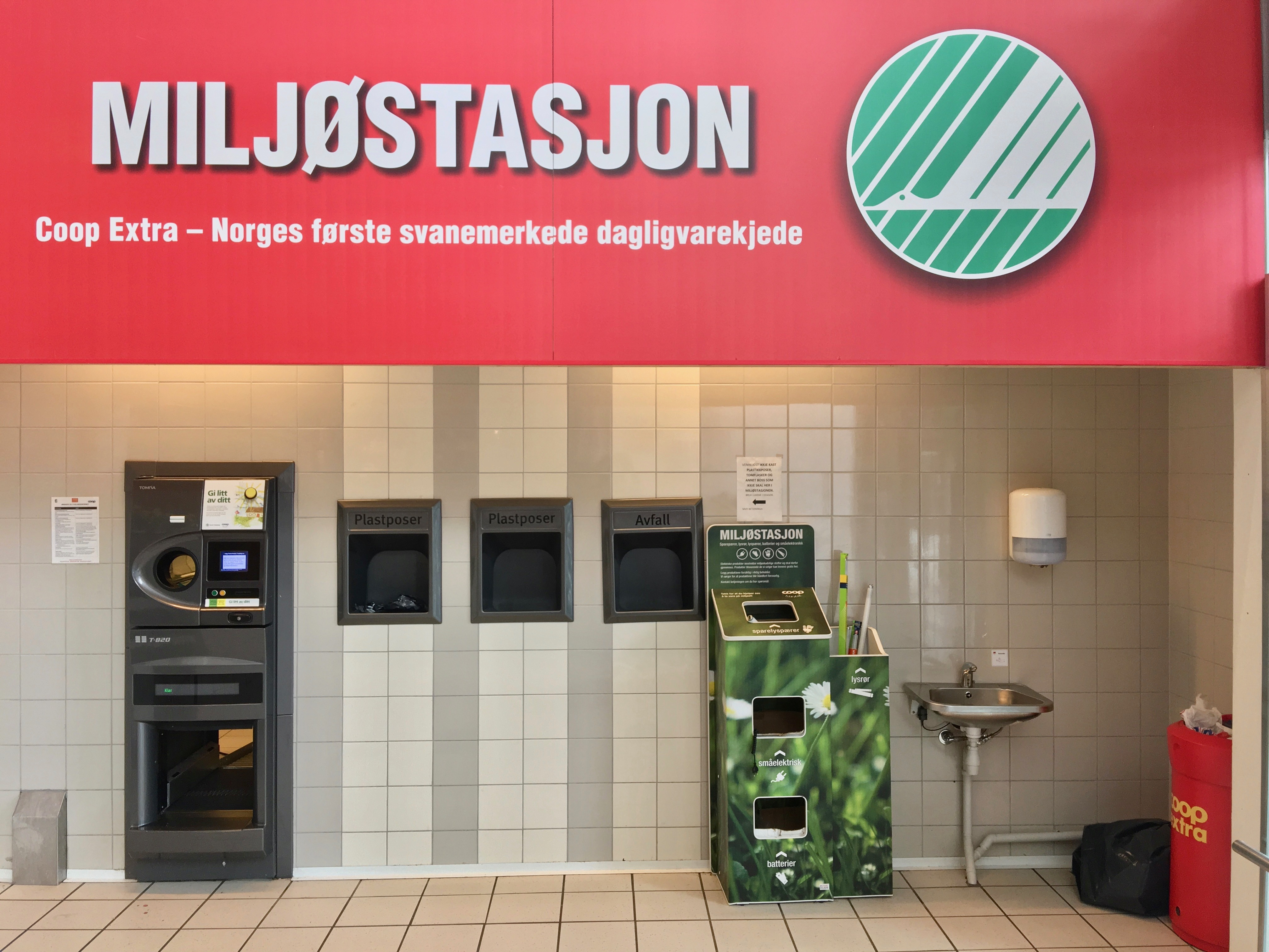 Extra Coop Supermarket, Amfi Shopping Mall in Osøyro, Hordaland, Norway. 2018-03-22. Bottle reverse vending machine, etc. (Miljøstasjon med panteautomat for retur av tomflasker, retur av batterier, lyspærer etc.)